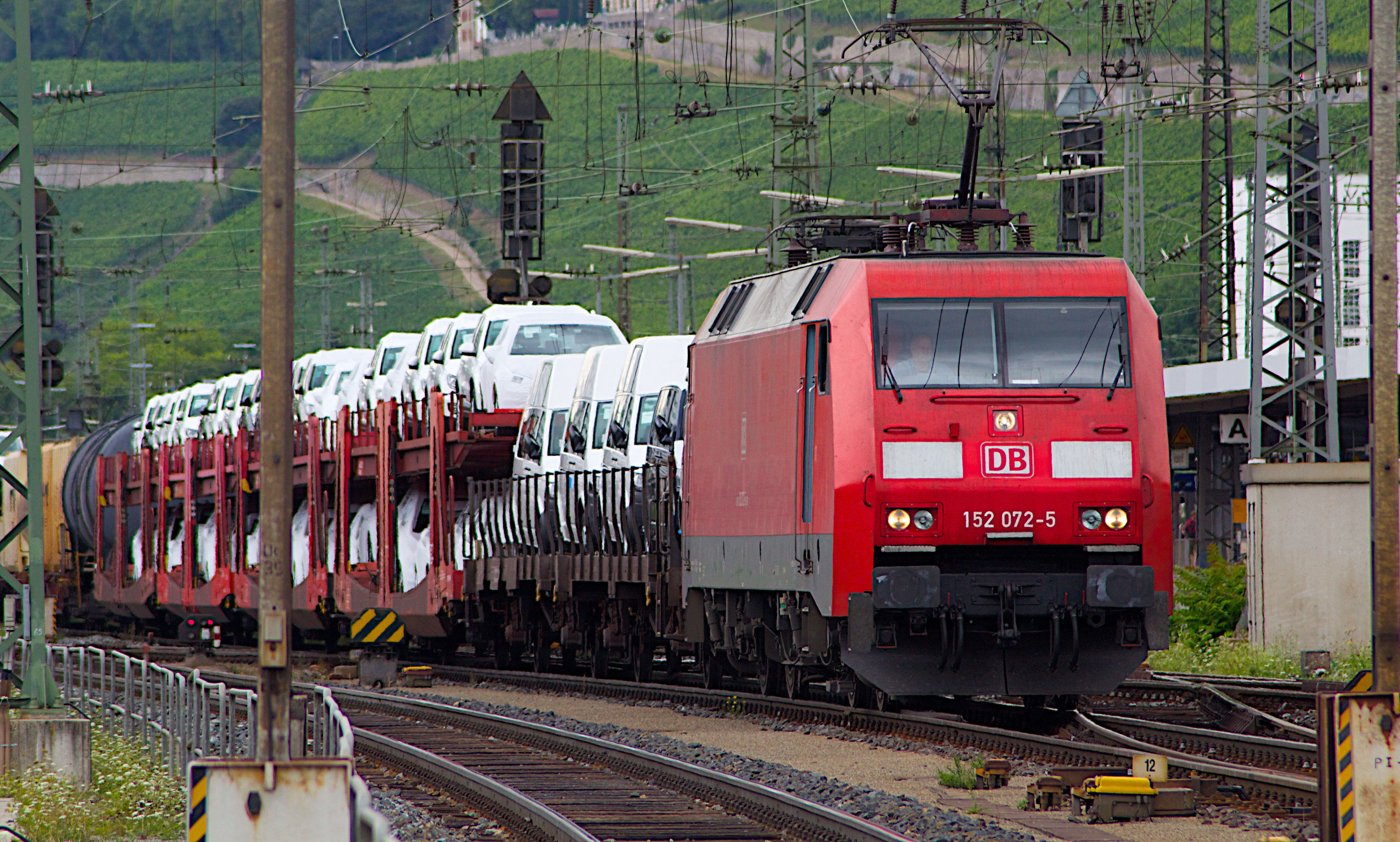 Locomotive 152 072-5 of the Deutsche Bahn AG passing through Würzburg Hauptbahnhof with a goods train.